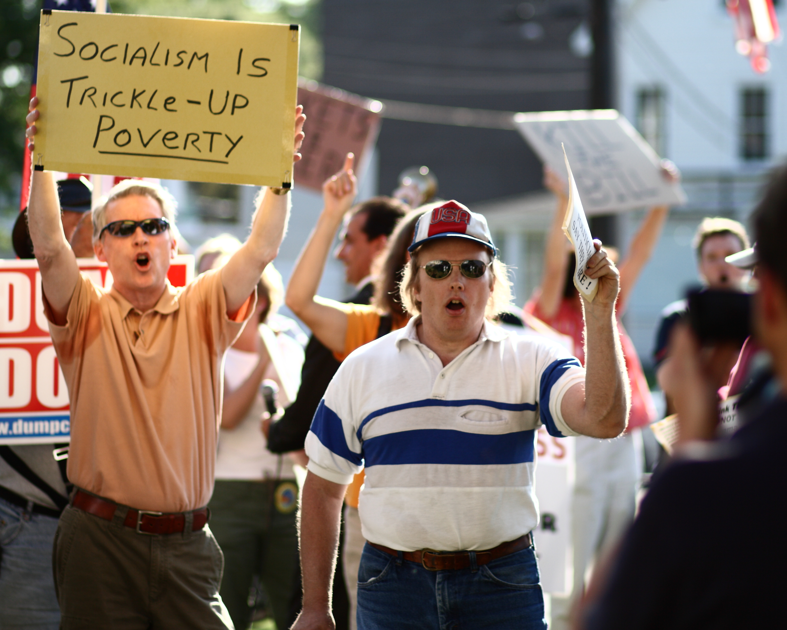 OpenStreetMap(Info) Two men yelling outside the West Hartford, Connecticut town hall, one with a sign that reads "SOCIALISM IS TRICKLe UP POVeRTY", before a health care reform town hall meeting with U.S. Representative John B. Larson on 2 September 2009